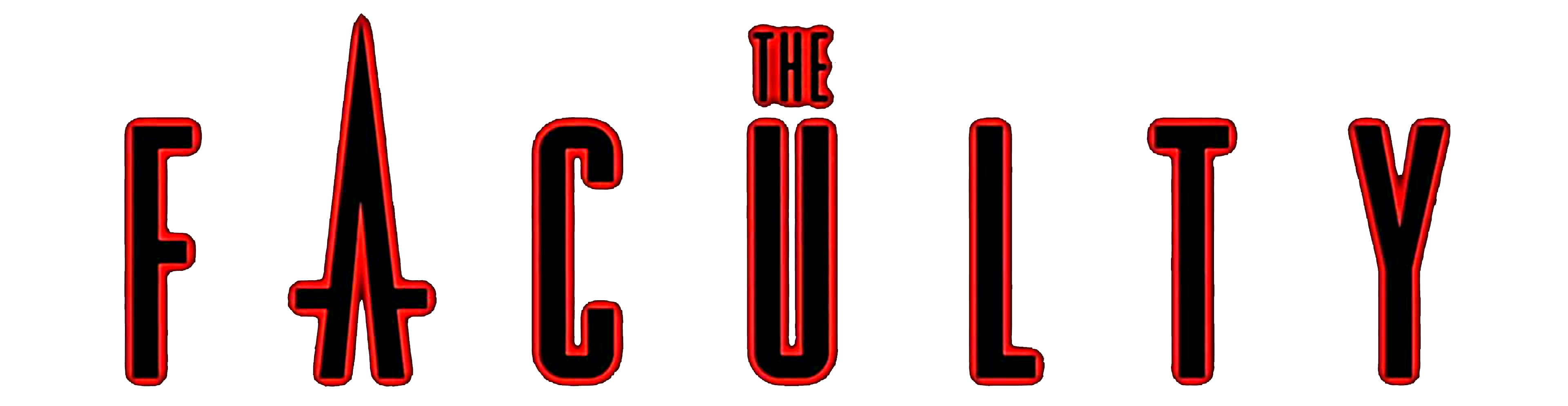 Title - The Faculty 1998